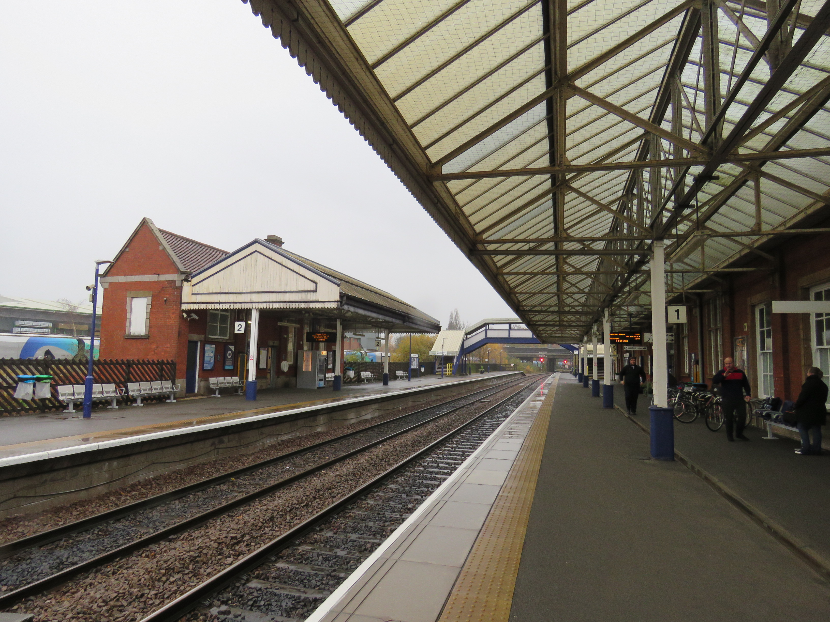 Scunthorpe railway station, Lincolnshire